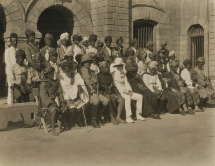 Official photograph taken on the occasion of the Lahej Conference of 1930, the first meeting ever between a Resident of Aden (then Sir Stewart Symes, center) and the main tribal chiefs and rulers of the Western Protectorate. To the left of Sir Symes is Sultan Abdul Karim Fadhl of Lahej, the most important state of the Western Protectorate. To the left of Sultan Fadhl is the Amir of Dhala, a strategic state bordering on Yemen (then the Imamate of Yemen). The other European in the front row is Bernard R. Reilly, then Assistant Resident. Reilly, who had been serving in Aden since 1912, will be the chief British official of Aden from 1931 to 1940, first as Resident, then as Commissioner, and finally as Governor (1937-1940). The photograph was taken outside the palace of the Sultan of Lahej.